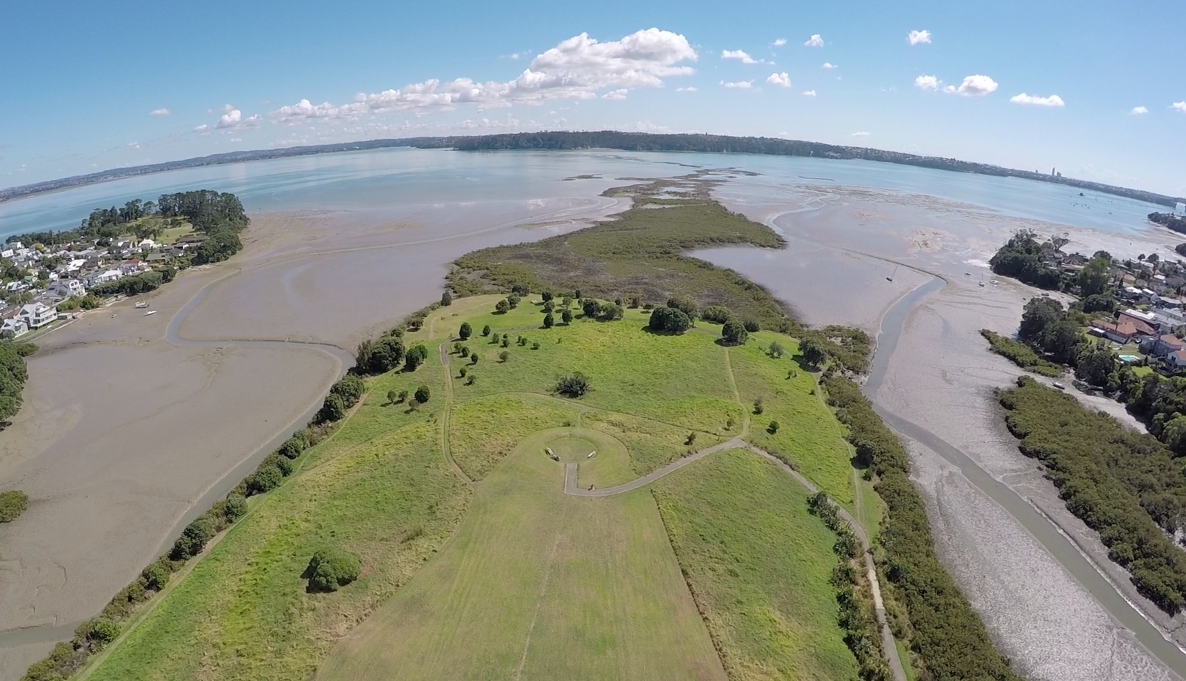 Photo taken from 75 meters altitude using a Ghost Drone and GoPro Hero 4 Silver